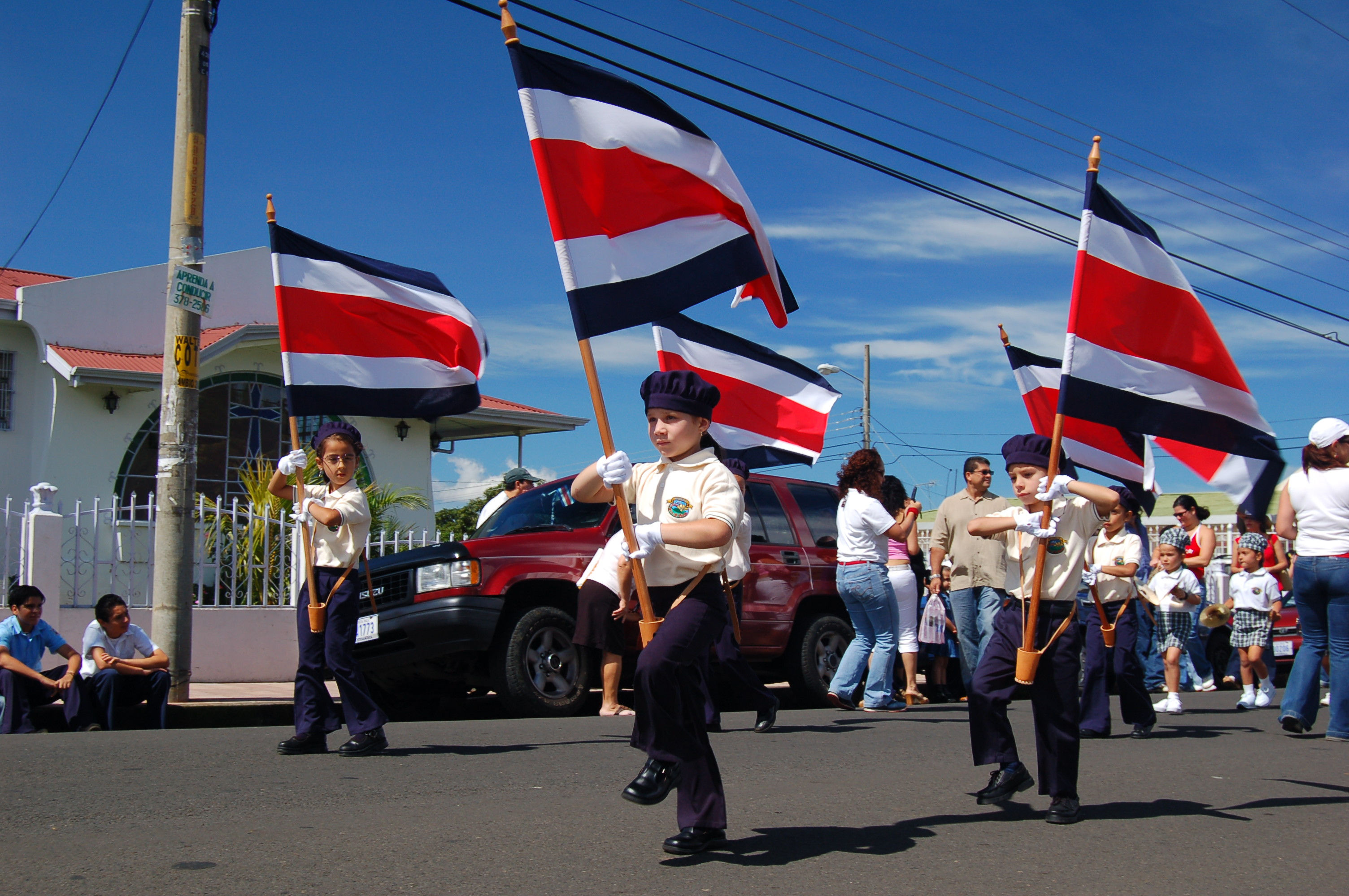 Independence Day in Costa Rica - Flag March 1